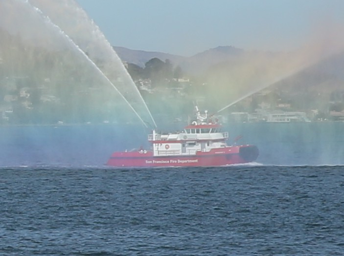 San Francisco's new fireboat 2016-10-06